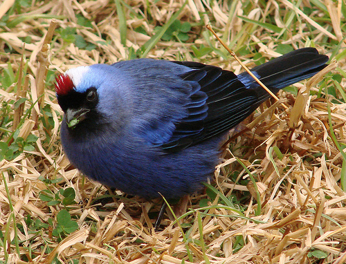 Photo taken by André Roviralta Dias Baptista at Itatiaia National Park, Mantiqueira Range, southeast Brazil, July 2007. See my gallery at